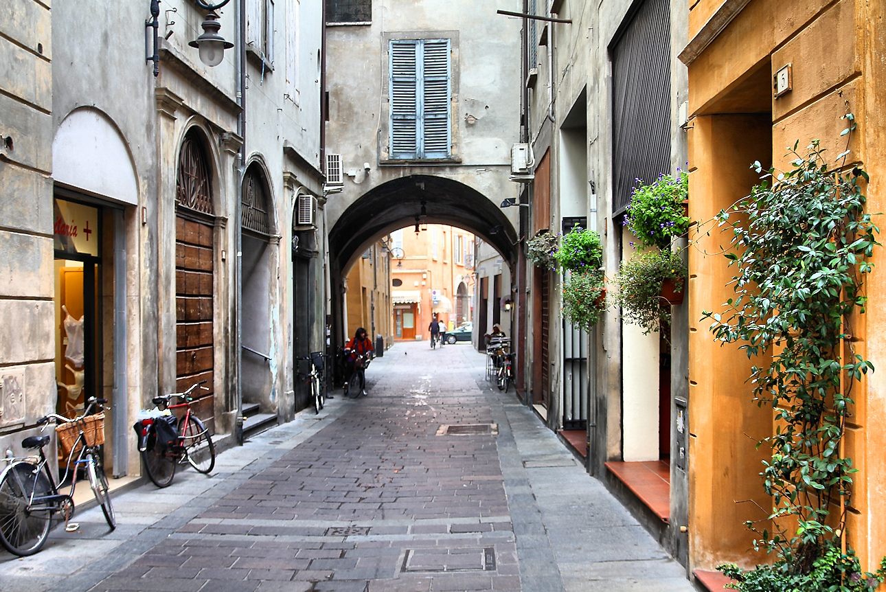 Street view in Reggio Emilia, Italy.